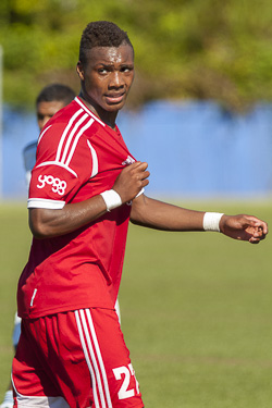 A photo of association football player, Michael Seaton.